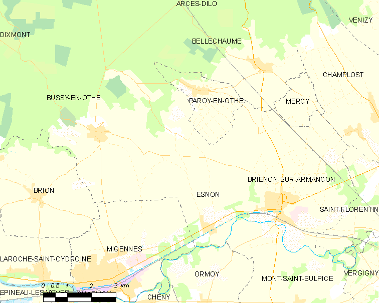 Map of French municipality Esnon